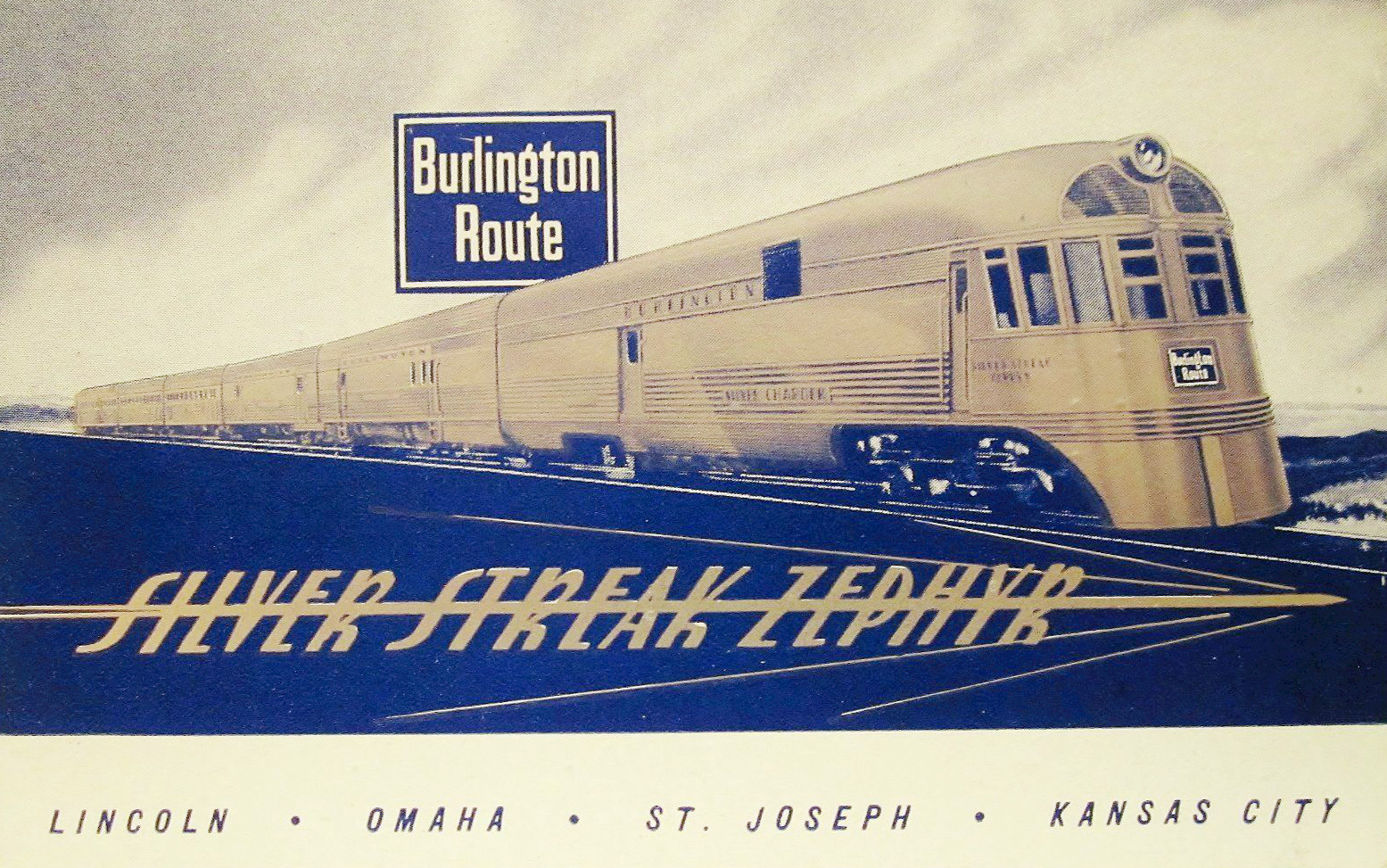 Postcard depiction of the Burlington Route's Silver Streak Zephyr which traveled between Lincoln, Nebraska and Kansas City.